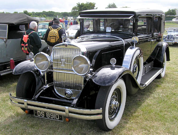 Nineteen-thirties Cadillac Fleetwood V8 seen at Kemble Airfield, Kemble, Gloucestershire, England. Can anyone date this vehicle more accurately, please? The narrow vents on the side of the hood indicate that it is prior to 1930, the placement of the lights on the tops of the fenders was in 1929 not 1928. Thus it must be a 1929 model. Taken by Adrian Pingstone in June 2004 and released to the public domain.